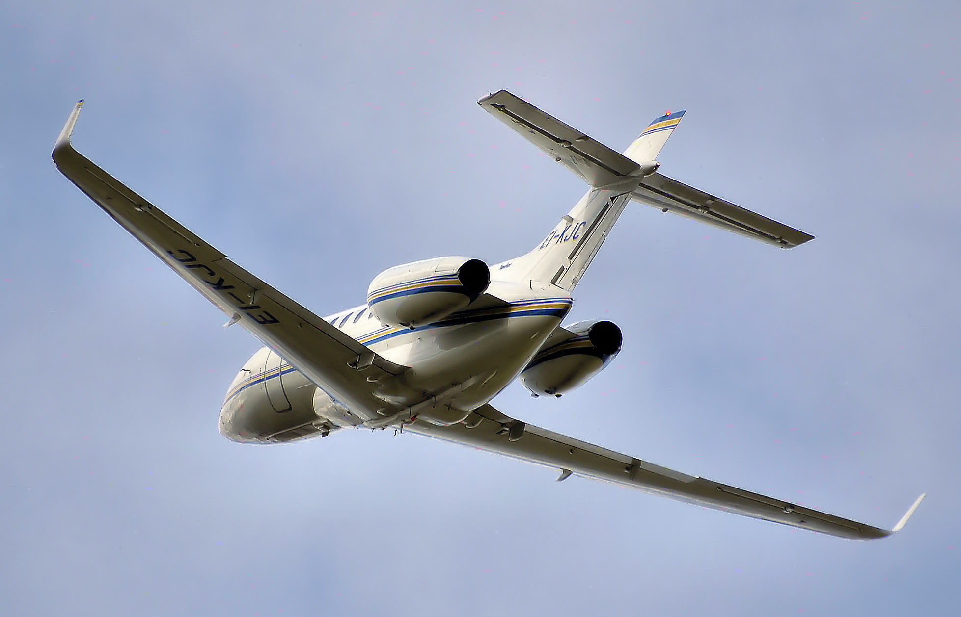 Raytheon Hawker 850XP (EI-KJC) takes off from Bristol International Airport, England.